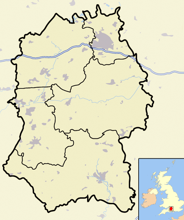 Map of the county of Wiltshire, England, United Kingdom, showing the (1974-2009 district boundaries).